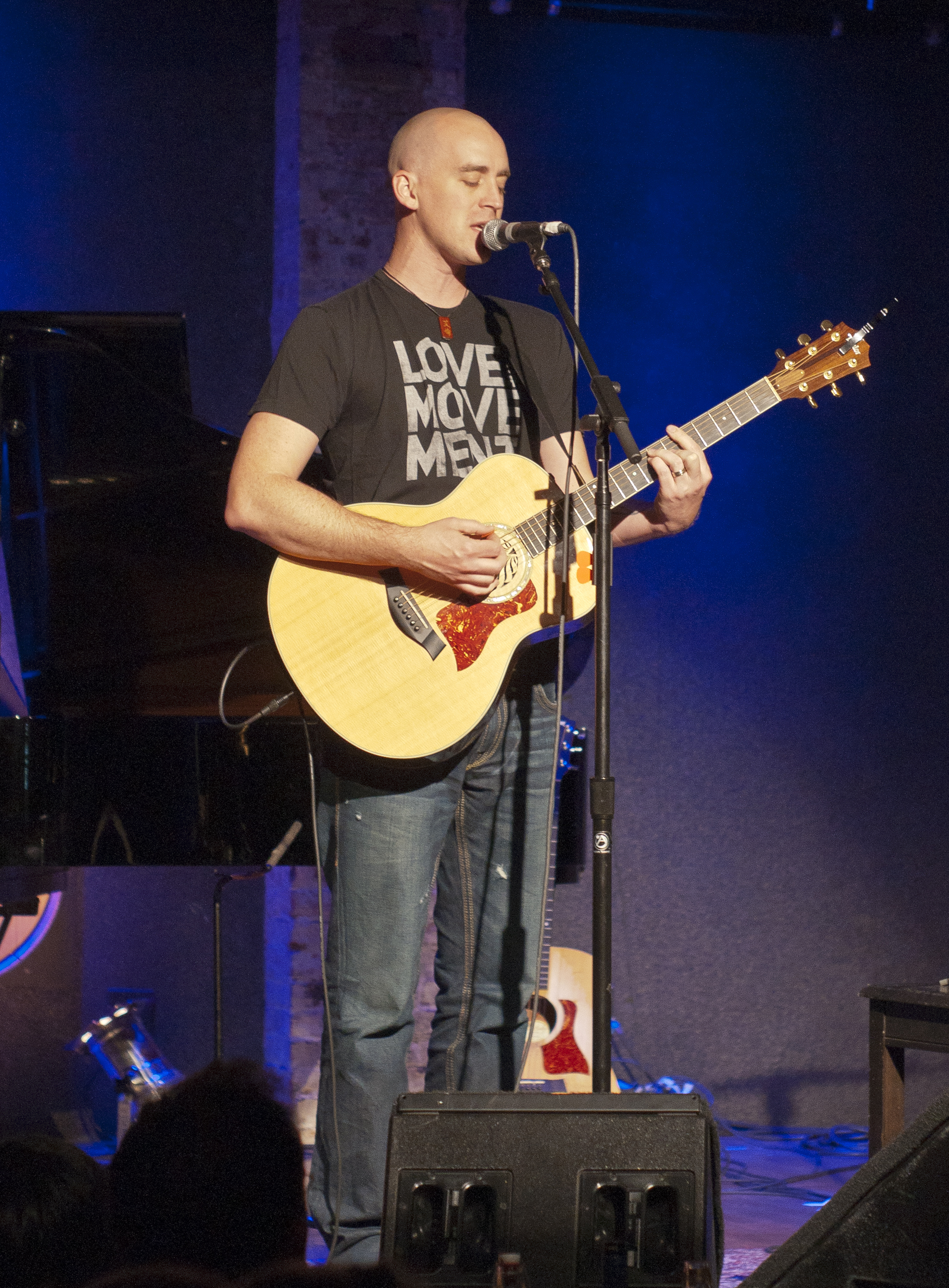 Singer and musician Tyrone Wells shown playing at the City Winery in New York City on April 28th, 2011.